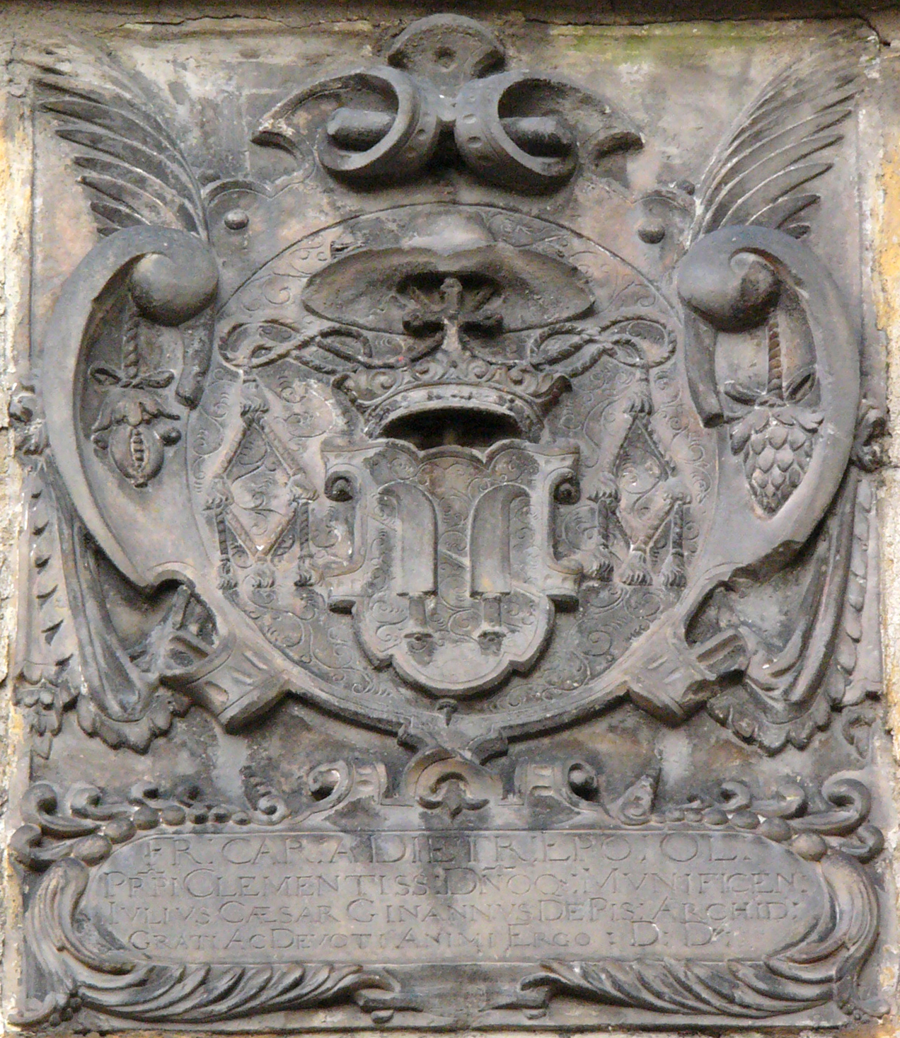 Coat of arms of bishop František z Ditrichštejna in Olomouc (Czech Republic) in 6 Wurmova street.